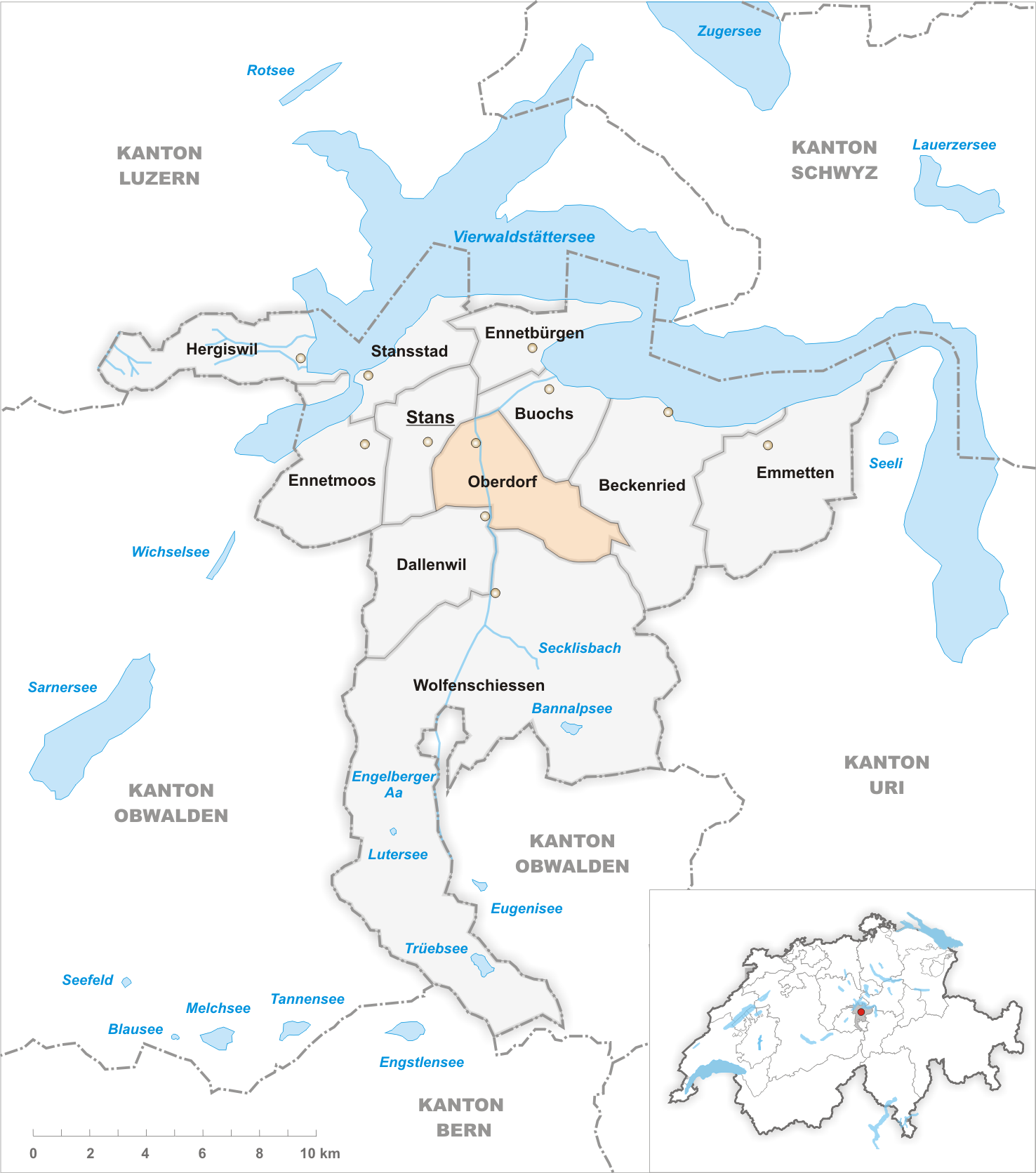 Municipality Oberdorf